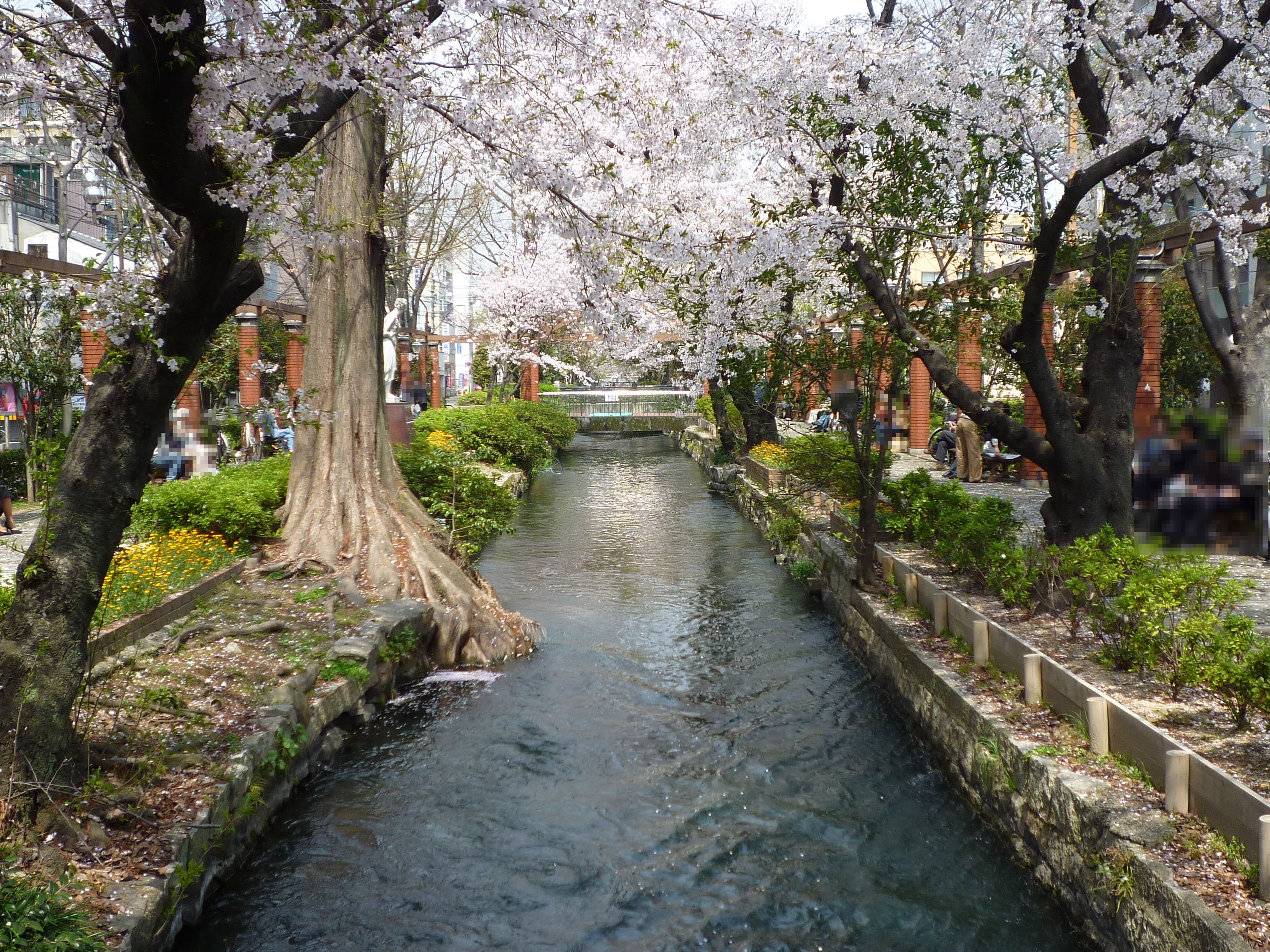 Nishigawa Canal Walk (Kita-ku, Okayama City, Okayama Pref, JPN)